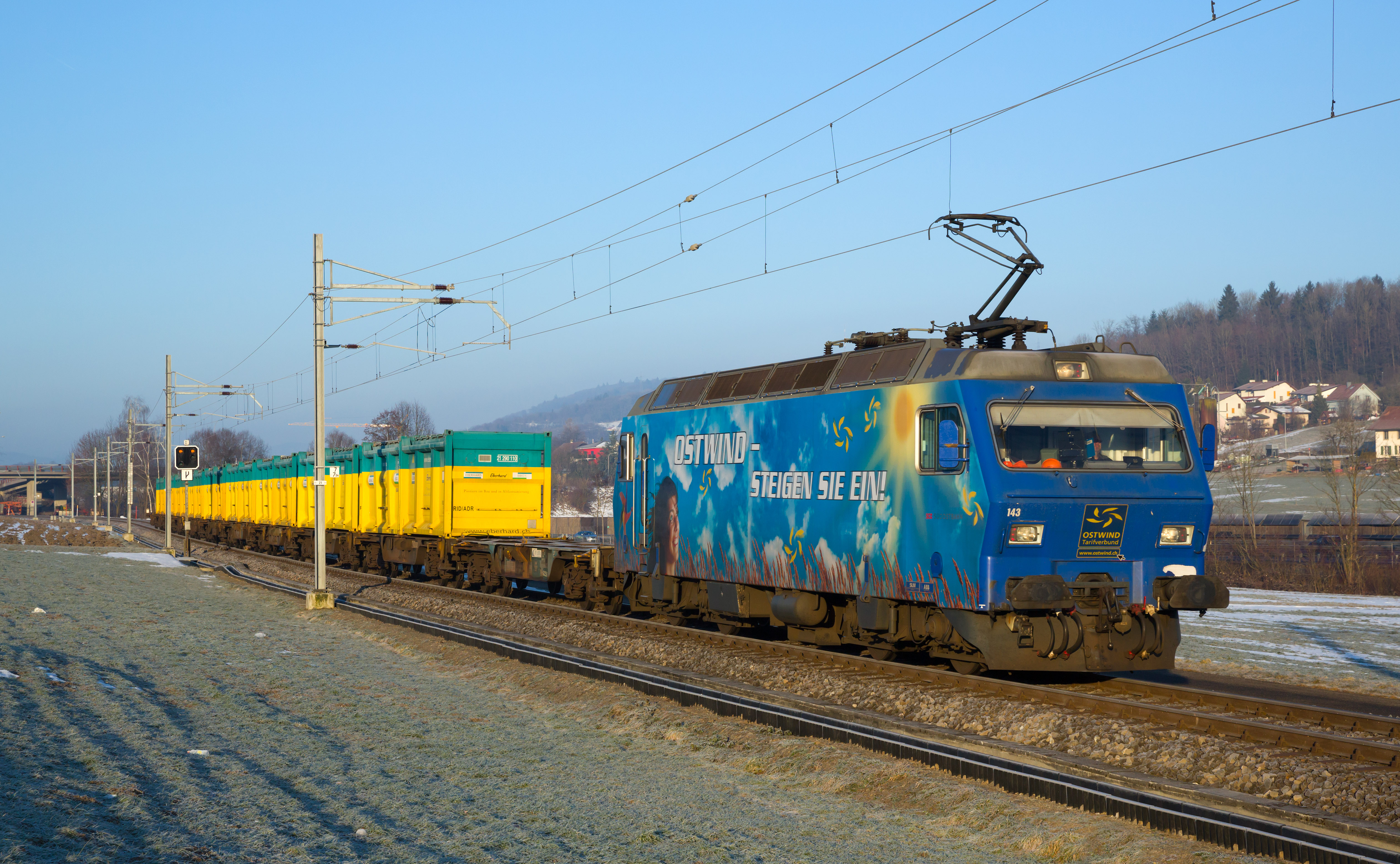 Re 456 143 is owned by BLS AG, but rented by Swiss Rail Traffic to run freight trains, even though this type was built to work light passenger trains. Among other things it is used to haul contaminated soil from the Kölliken landfill to Niederglatt, as pictured. The locomotive still bears the livery from its Südostbahn days.